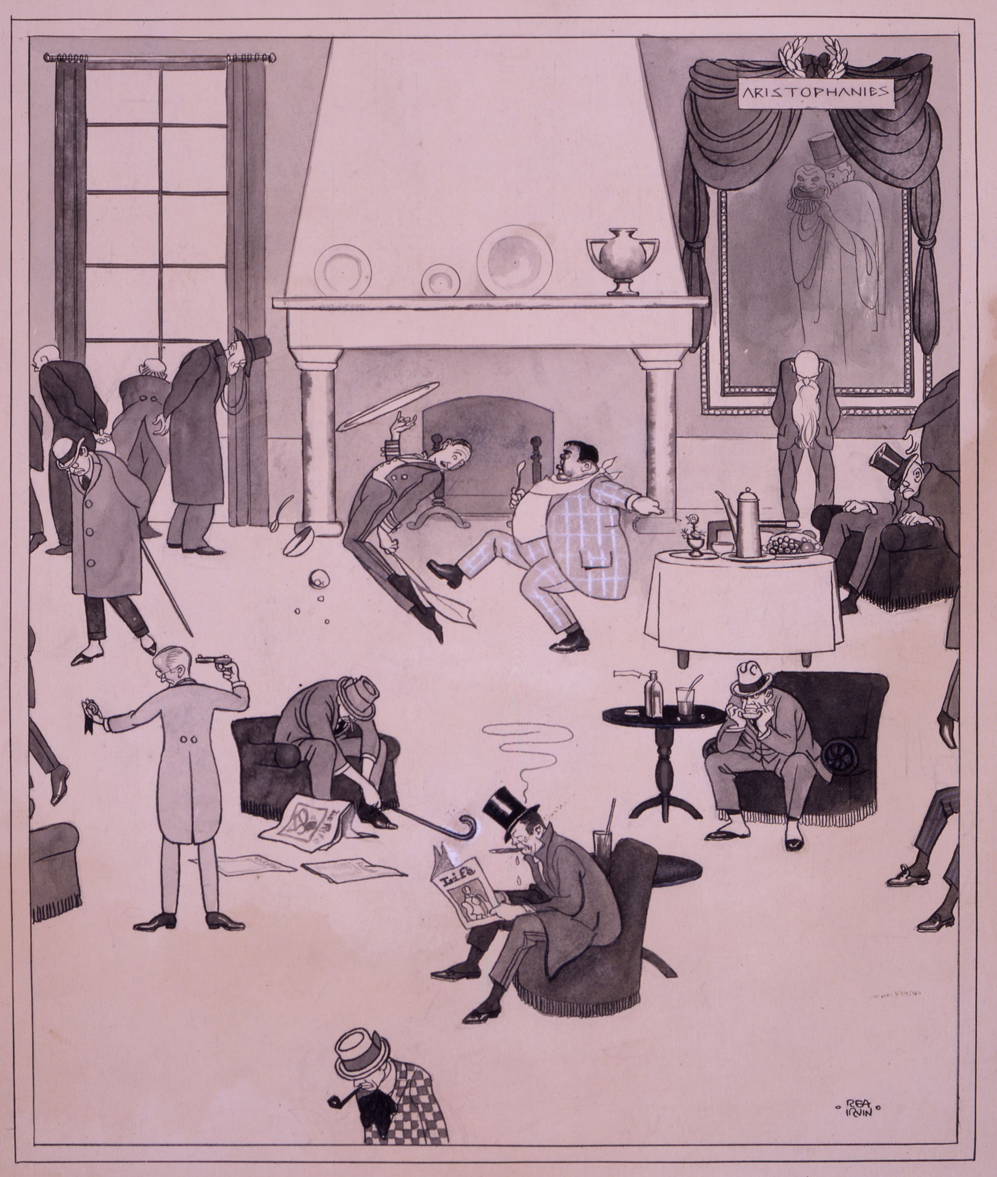 "The professional humorists' club". 1914 cartoon by Rea Irvin. In a club sitting room various types of men mope about in sad, angry, and depressed moods. One suicidal man holds a gun to his head, another kicks an astonished waiter and points to a chick popping out of his egg, and a third cries while reading Life magazine. A painting on the rear wall, of a man dressed in a toga and holding a mask before his face, is identified as "Aristophanies." Part of the series "Clubs We Do Not Care to Join."